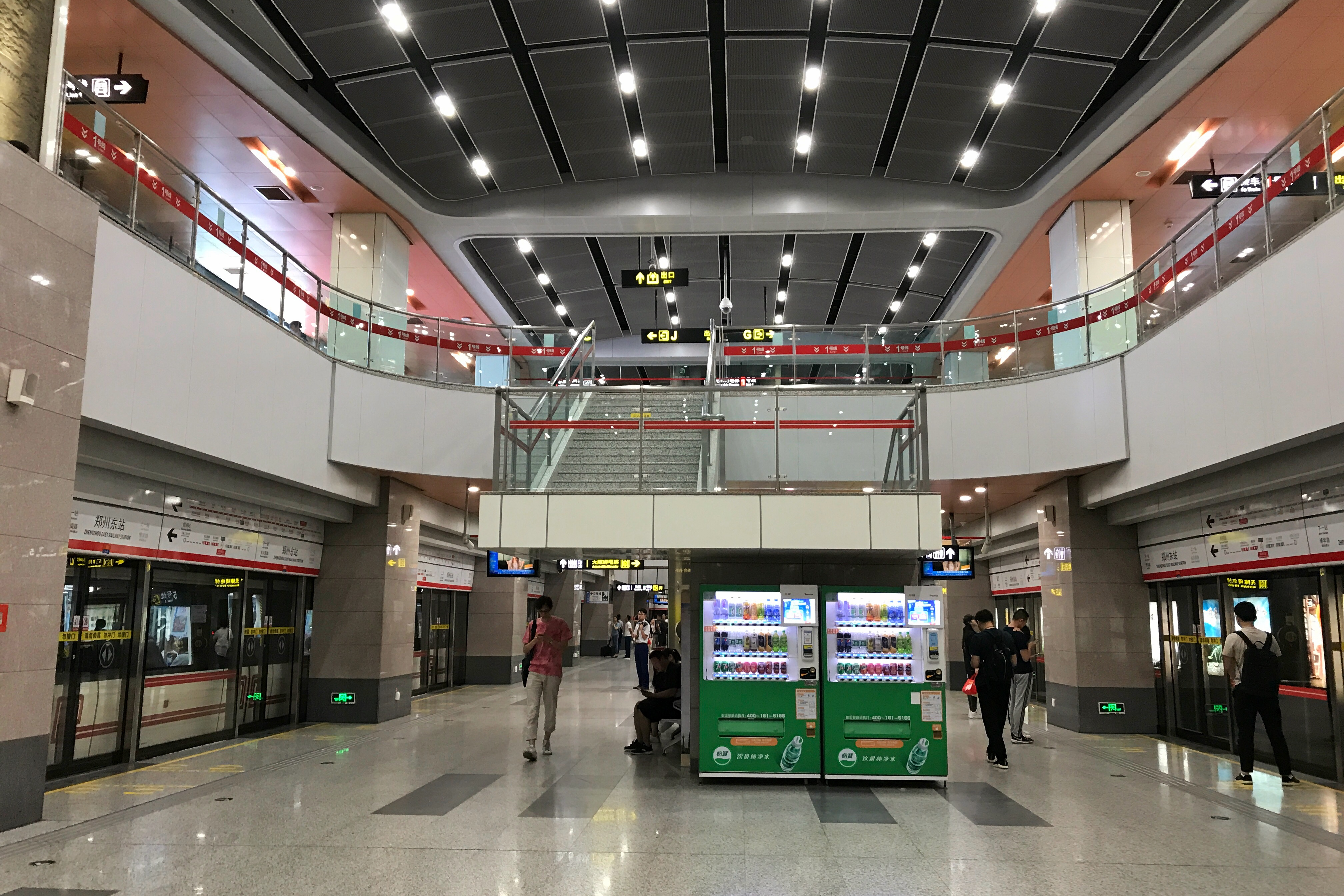 Platform of Line 1 at Zhengzhou East Railway Station (Metro)